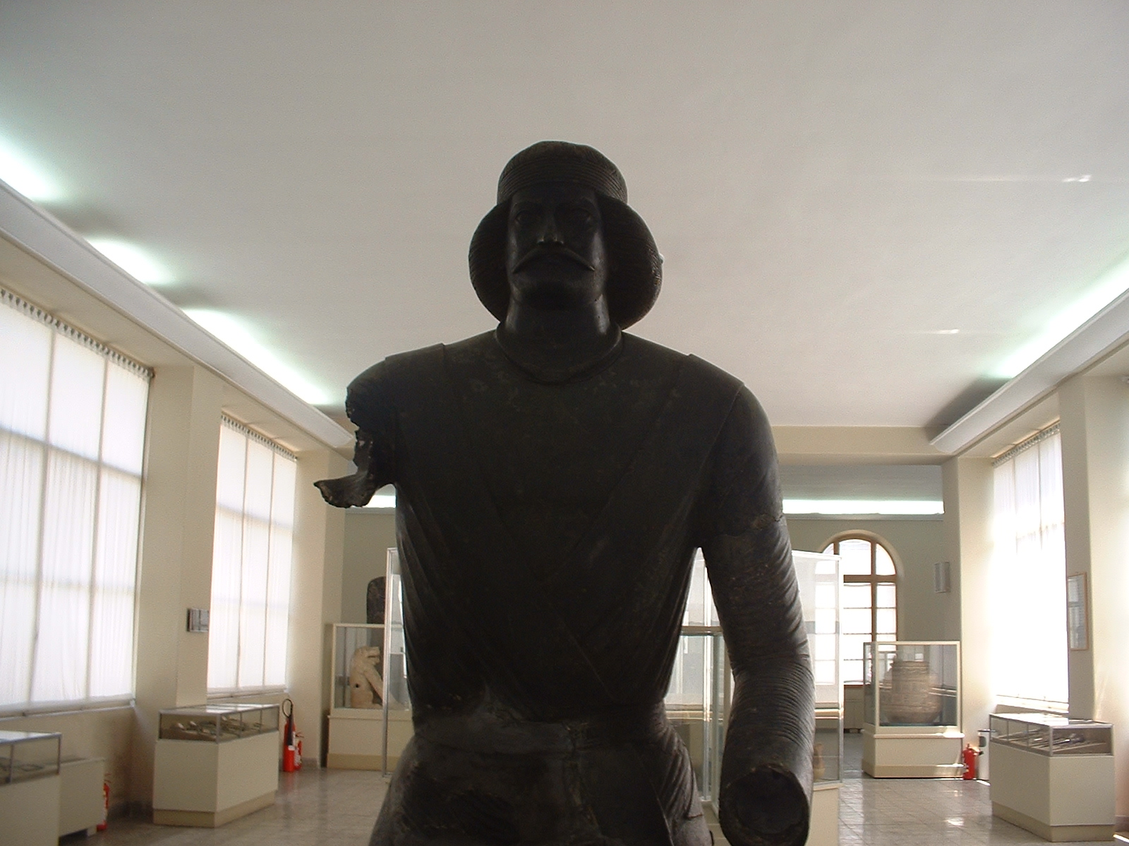 A bronze statue of a Parthian nobleman from the sanctuary at Shami in Elymais (modern-day Khūzestān Province, Iran, along the Persian Gulf), now located at the National Musem of Iran. Information presented here found on page 133 of Brosius, Maria. (2006). The Persians: An Introduction. London & New York: Routledge. ISBN 0-415-32089-5 (hbk). Photo taken by --Aytakin 01:16, 8 December 2005 (UTC).